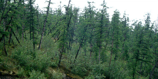 Larix gmelinii forest. This is what the Siberians call a "drunken forest". Permafrost that has not melted provides a solid foundation that holds trees upright. When permafrost melts, as it has here, the layer of loose soil deepens and trees lose their foundations, tipping over at odd angles. Kochechum River, Evenkiyskiy Avtonomnyy Okrug, Russia; 66°20'N 99°00'E.As we traveled down river, I saw what the Siberians call a "drunken forest". This area is permafrost, where the soil stays firmly frozen year round. Larch grows well here, but their roots are shallow. When permafrost melts, the trees lose their footing and tilt to the side. I guess the trees look like a drunk trying to walk home, tilted at crazy angles. It is a curious sight, but it is also a clear sign that the temperature in that spot has been warm enough to melt the permafrost. -- Weblog of Dr. Jon Ranson in Siberia.